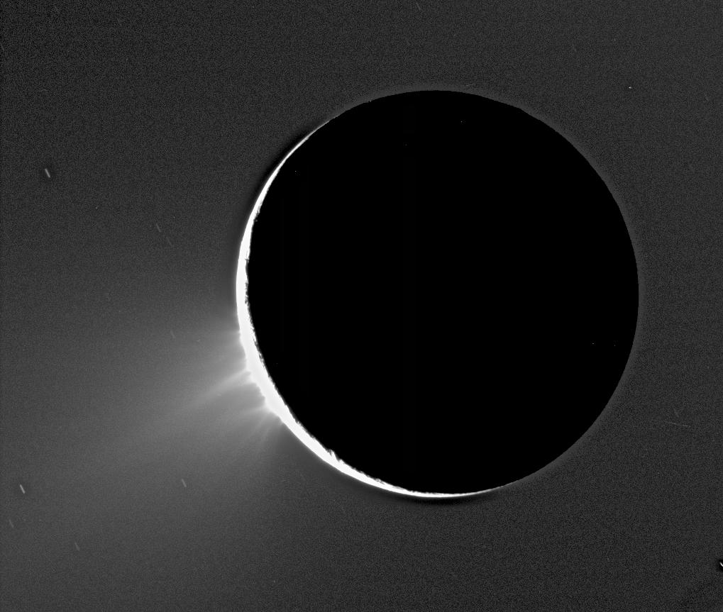 Fountains of Enceladus Recent Cassini images of Saturn's moon Enceladus backlit by the sun show the fountain-like sources of the fine spray of material that towers over the south polar region. This image was taken looking more or less broadside at the "tiger stripe" fractures observed in earlier Enceladus images. It shows discrete plumes of a variety of apparent sizes above the limb of the moon.